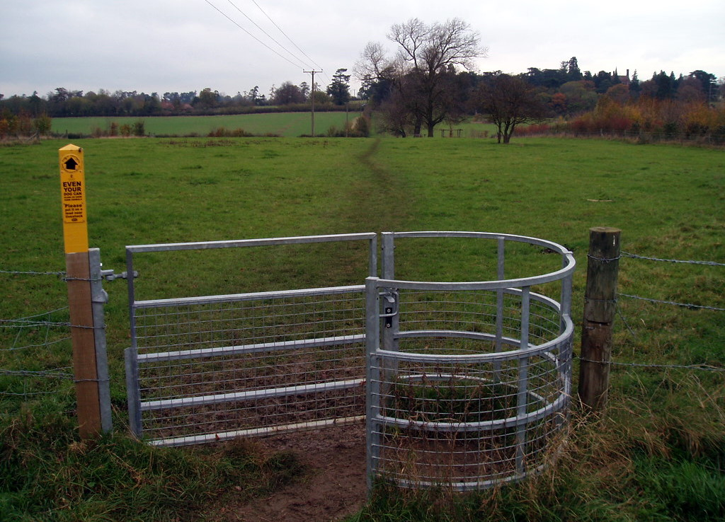 Kissing Gate in Clapham Park